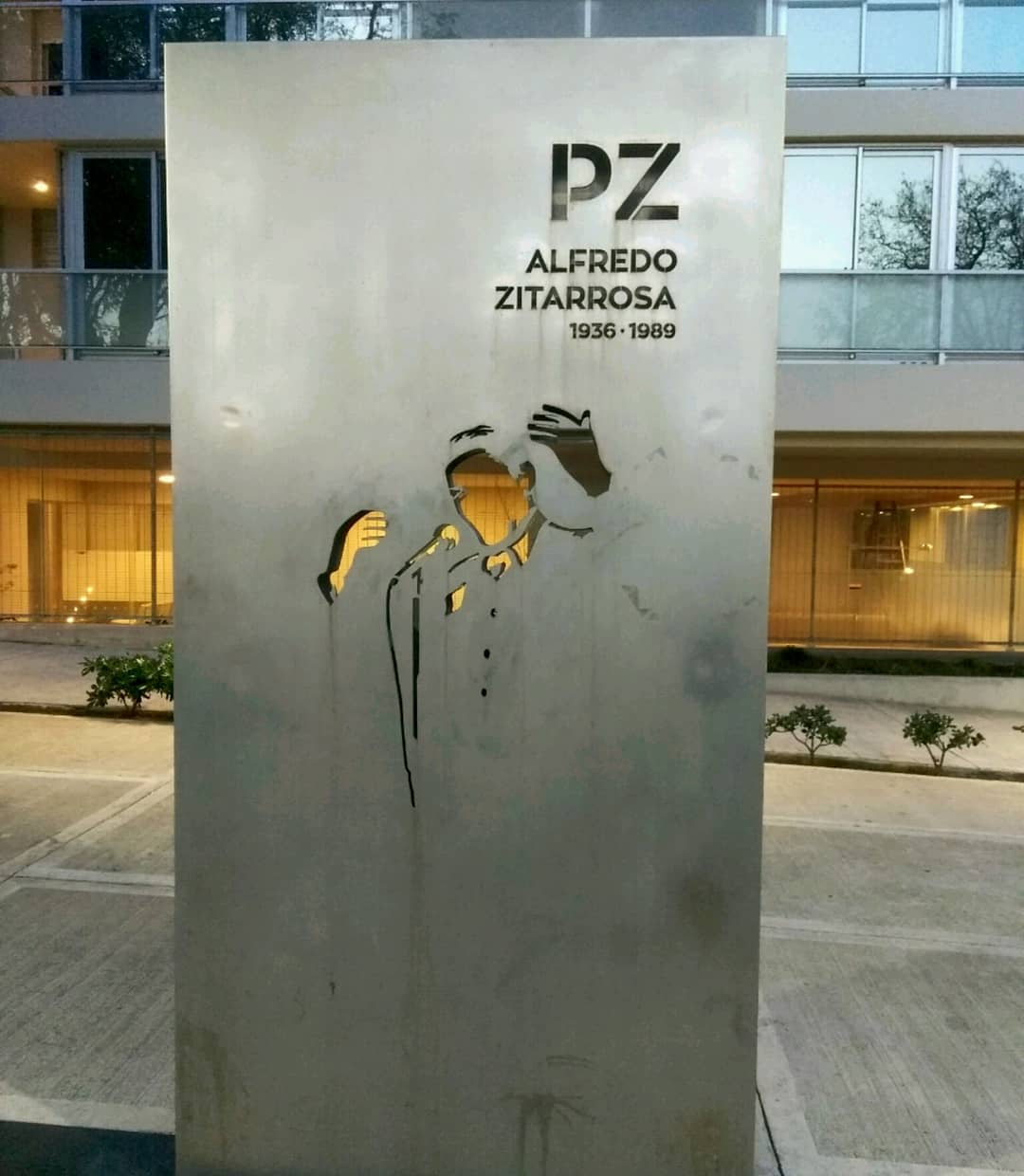 Monument to the Uruguayan singer, bard and composer Alfredo Zitarrosa